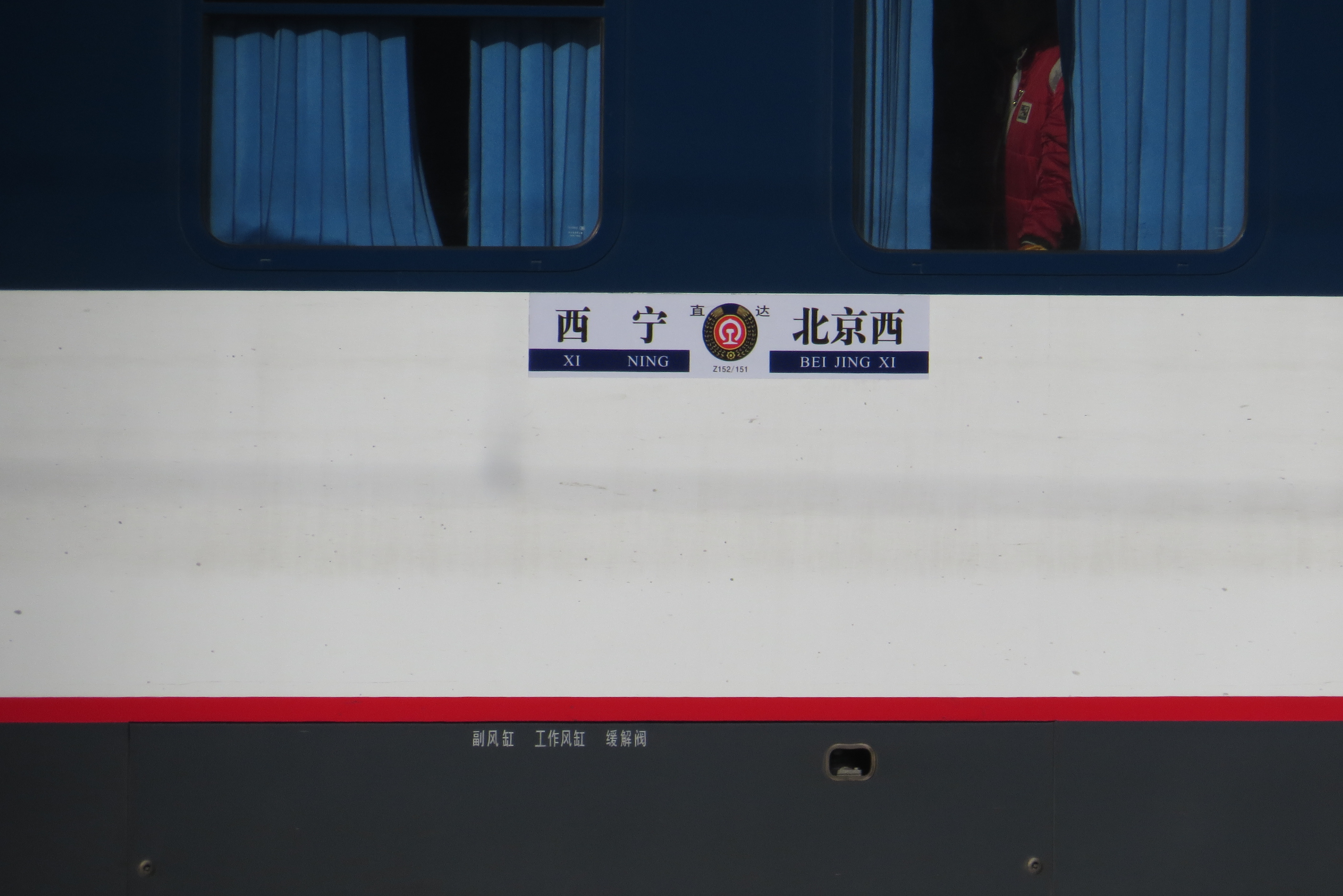 Beijing to Xining West.